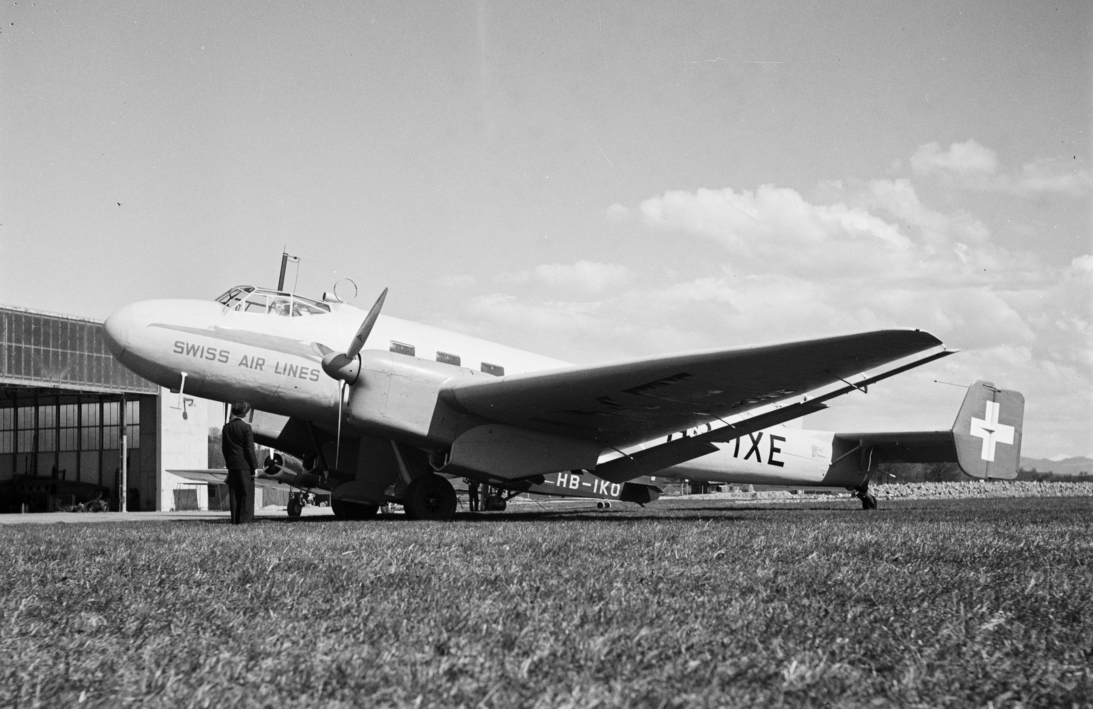 Ju-86 Swissiar in front of todays hangar number 11 at Dubendorf airfield